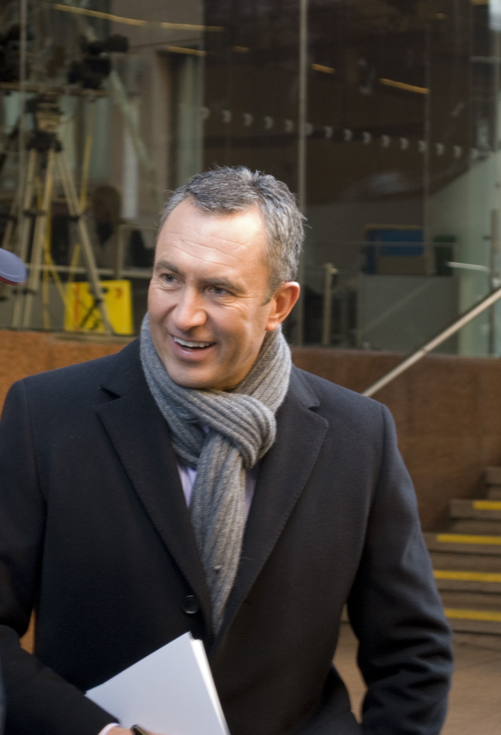 Taken in Martin Place on June 30th 2010.